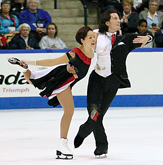 Megan Wing and Aaron Lowe compete their free dance at the 2003 Skate Canada competition in Mississauga, Ontario. Photo by me, Vesperholly 07:53, 17 July 2006 (UTC)